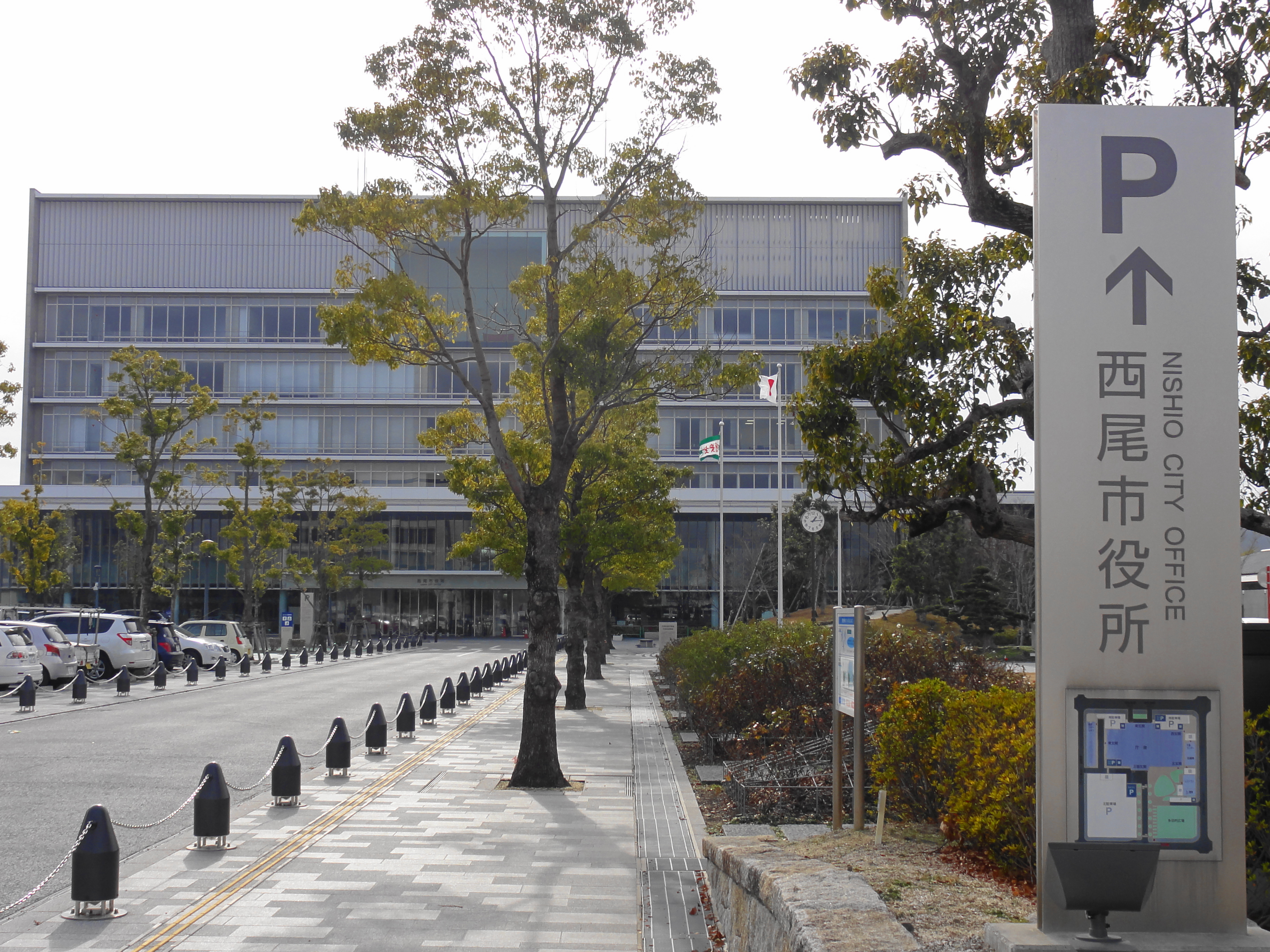 Nishio city office, Aichi prefecture,Japan